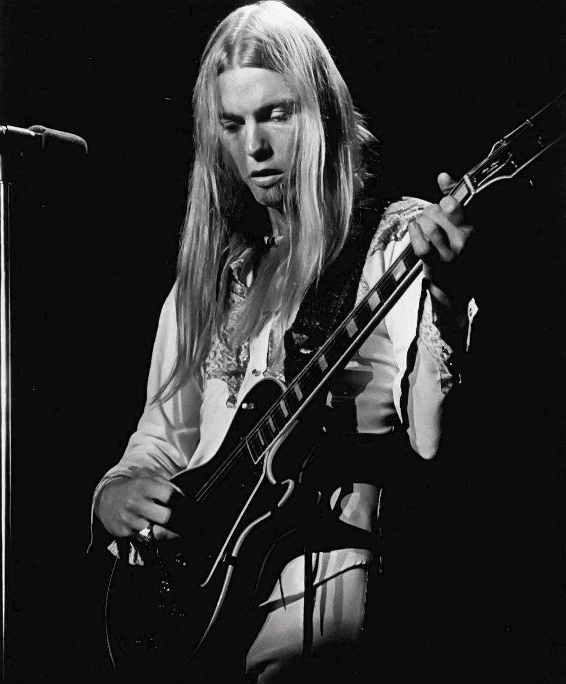 Photo of Gregg Allman performing with the Allman Brothers Band.